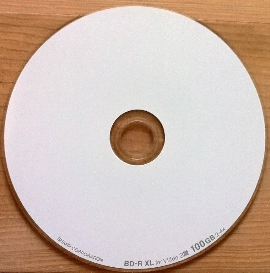 This is a BD-R XL Writable disc. The capacity of a triple layer Blu-ray disc is 100GB of data.